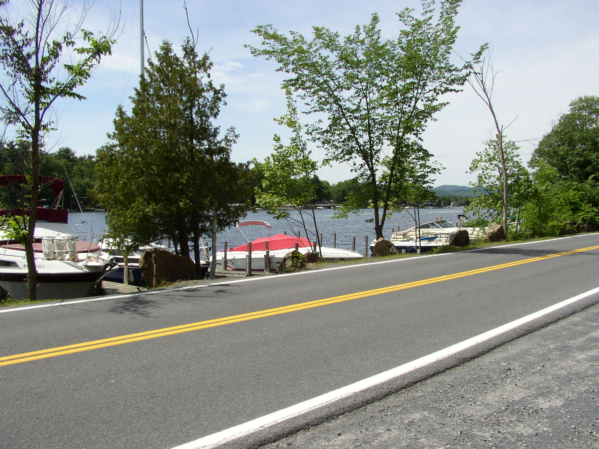 View of Warner Bay of Lake George as seen across Pilot Knob Road in Kattskill Bay hamlet, the town of Queensbury, New York.